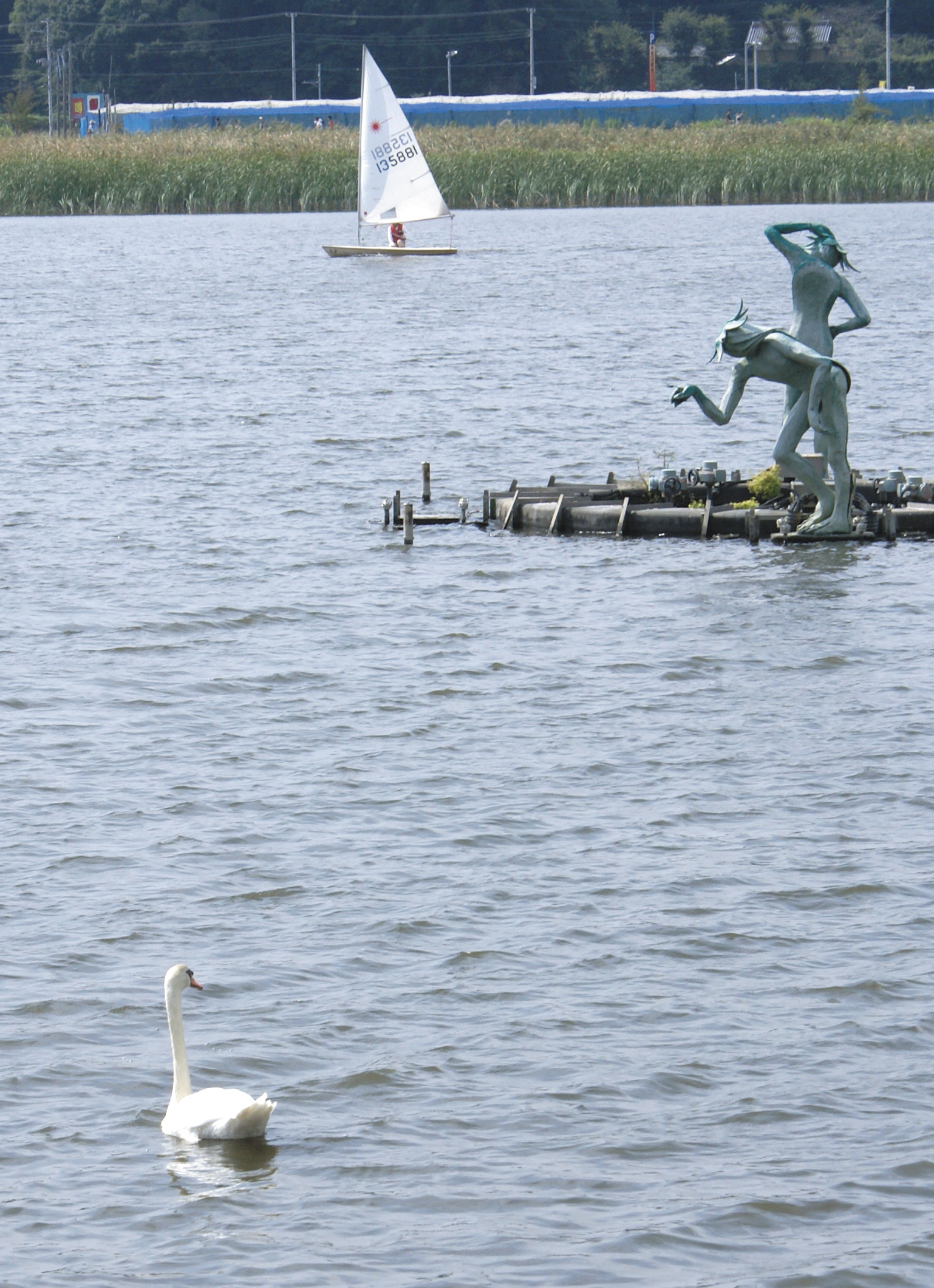 Teganuma in Ciba Japan